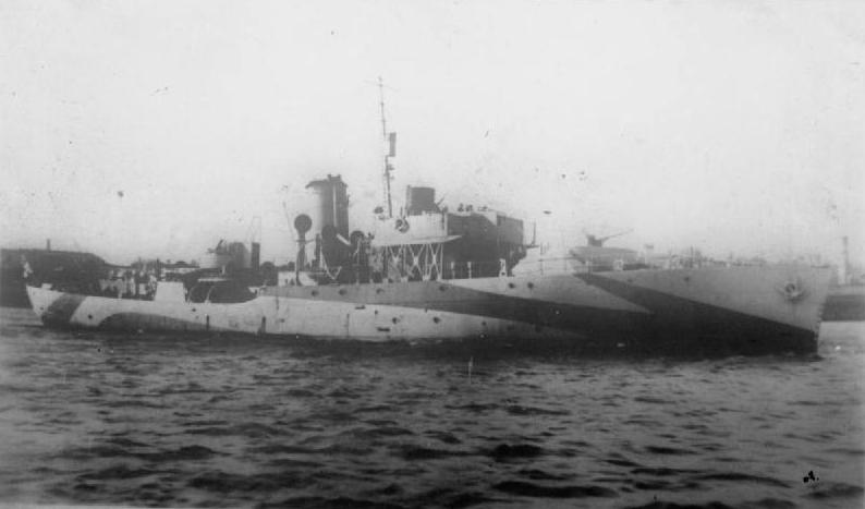 Royal Navy Flower-class corvette HMS SalviaStationary.